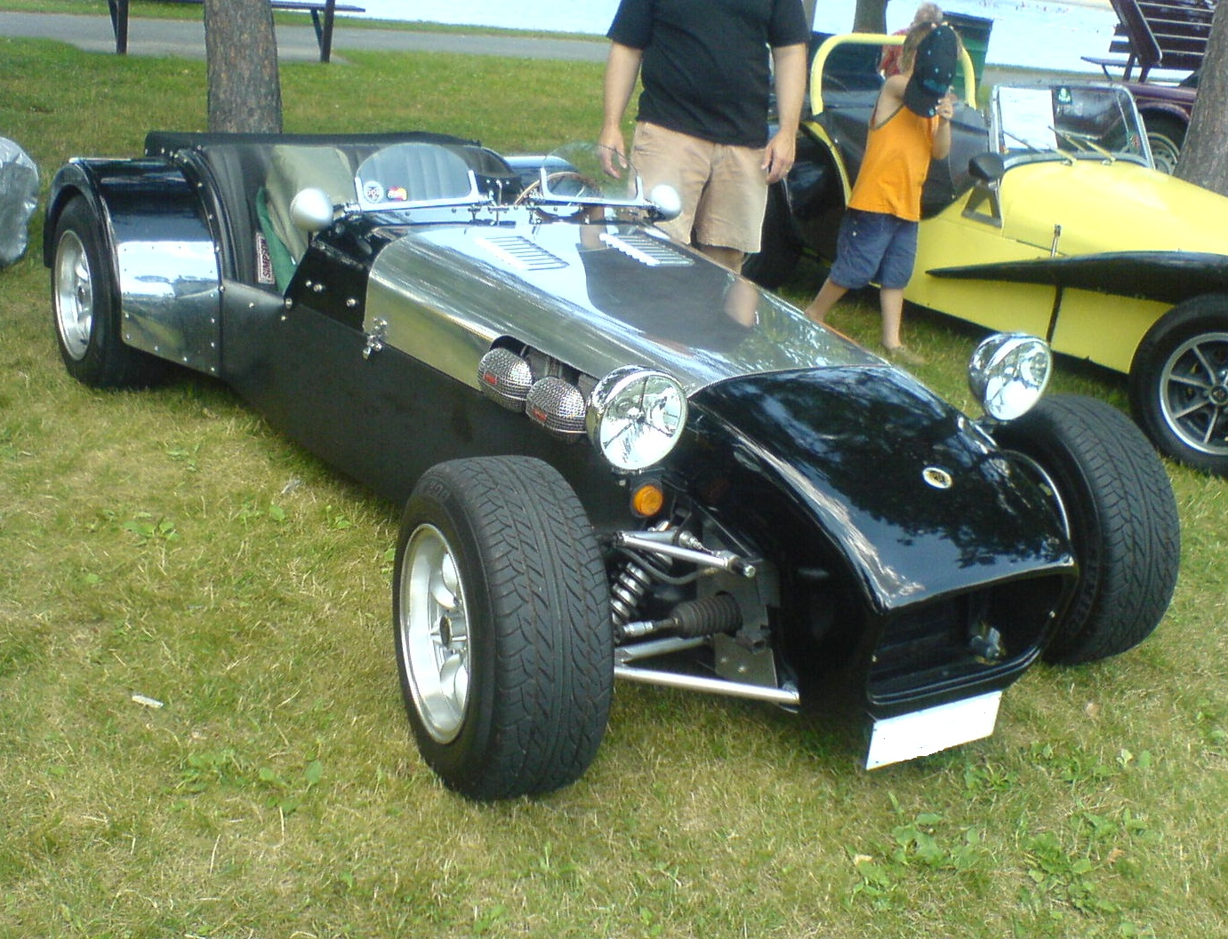 Lotus Seven photographed in Ottawa, Ontario, Canada at the 2010 Ottawa British Auto Show.